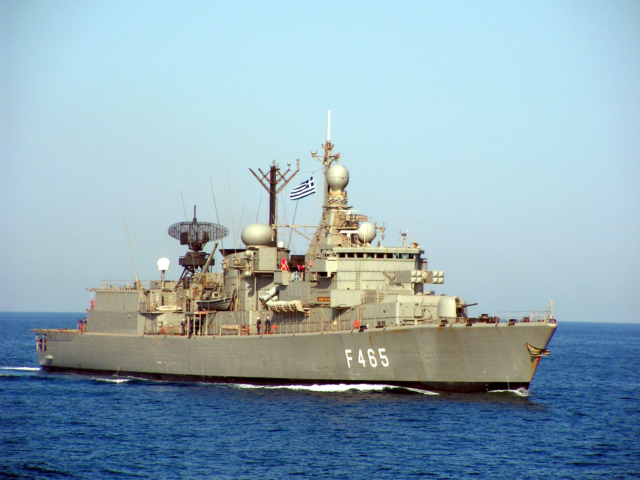 Greek frigate HS Themistocles, F-465. ex-Philips van Almonde (F823).